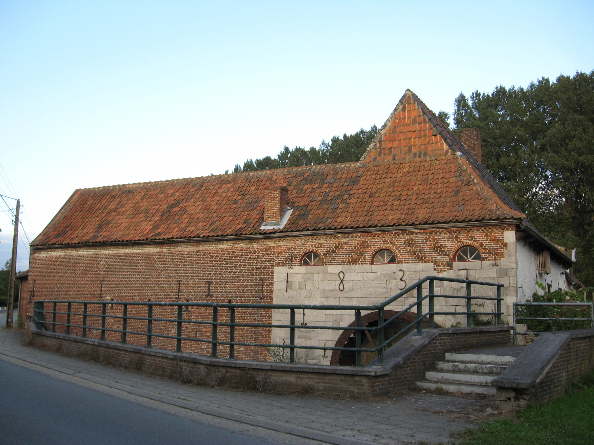 Metsterenmolen in Sint-Truiden, Limburg, Belgium